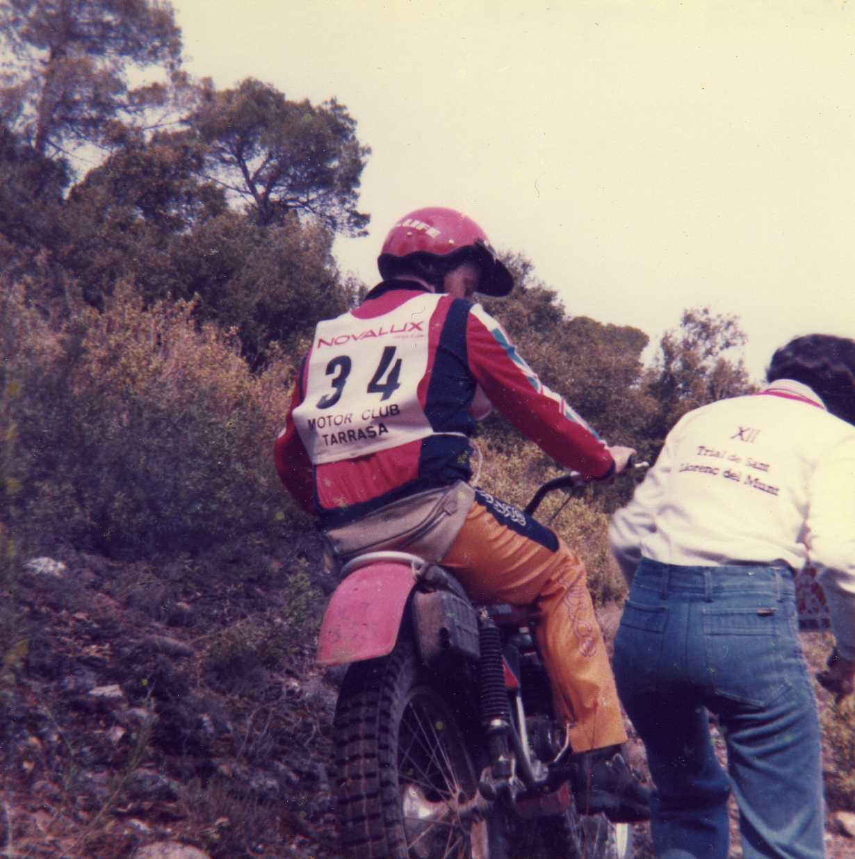 Martin Lampkin with his Bultaco Sherpa at XII "Trial de Sant Llorenç" in Matadepera (Catalonia) on March 12, 1978, while waiting for the judge to enter his section score. It was the 5th race of the Trial World Championship. He finished 2nd behind Bernie Schreiber. This was the section #14, near "La Barata" (close to the road from Matadepera to Talamanca).